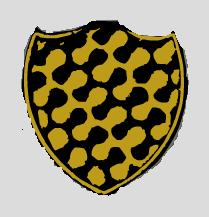 Stemma del casato dei de Mari